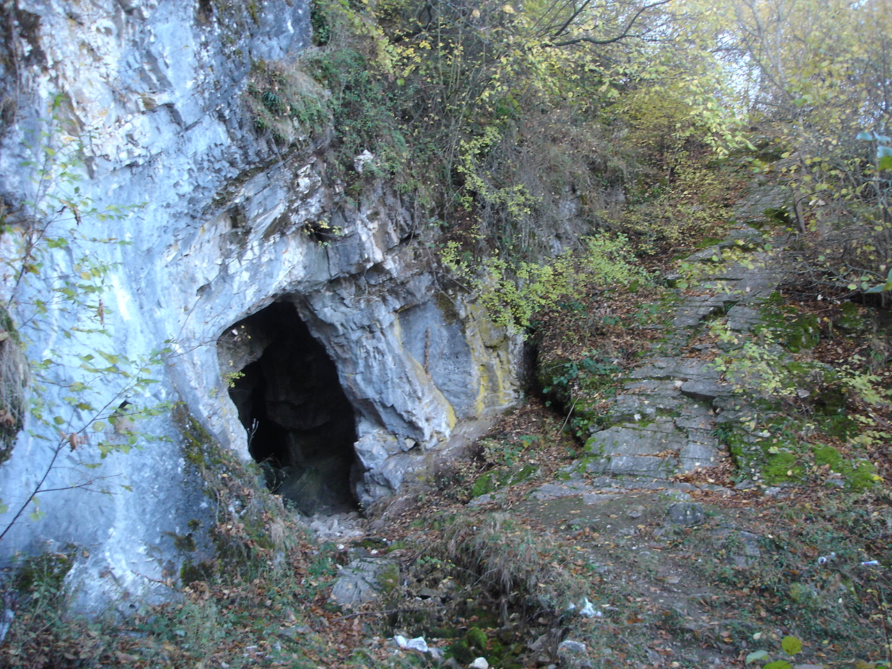 Dračevska Cave, Macedonia